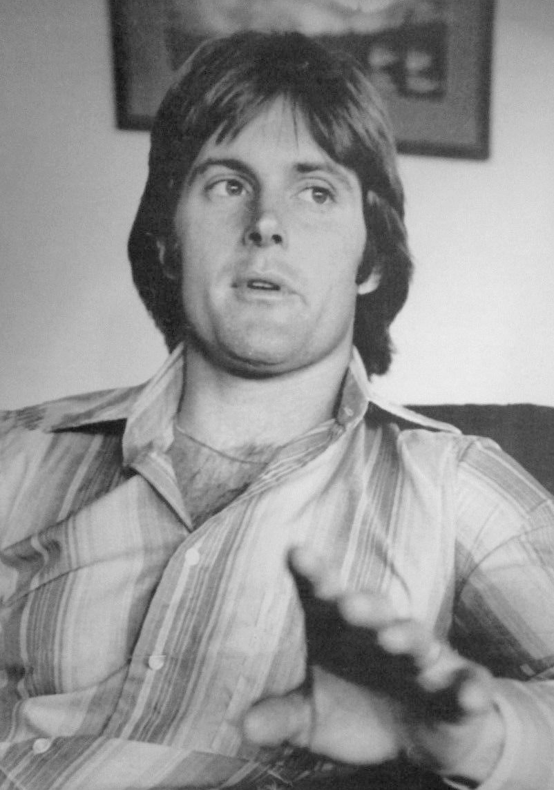 Vintage Wire AP Photo Bruce Caitlyn Jenner Olympic Decathlon Champion #2 1/06/77